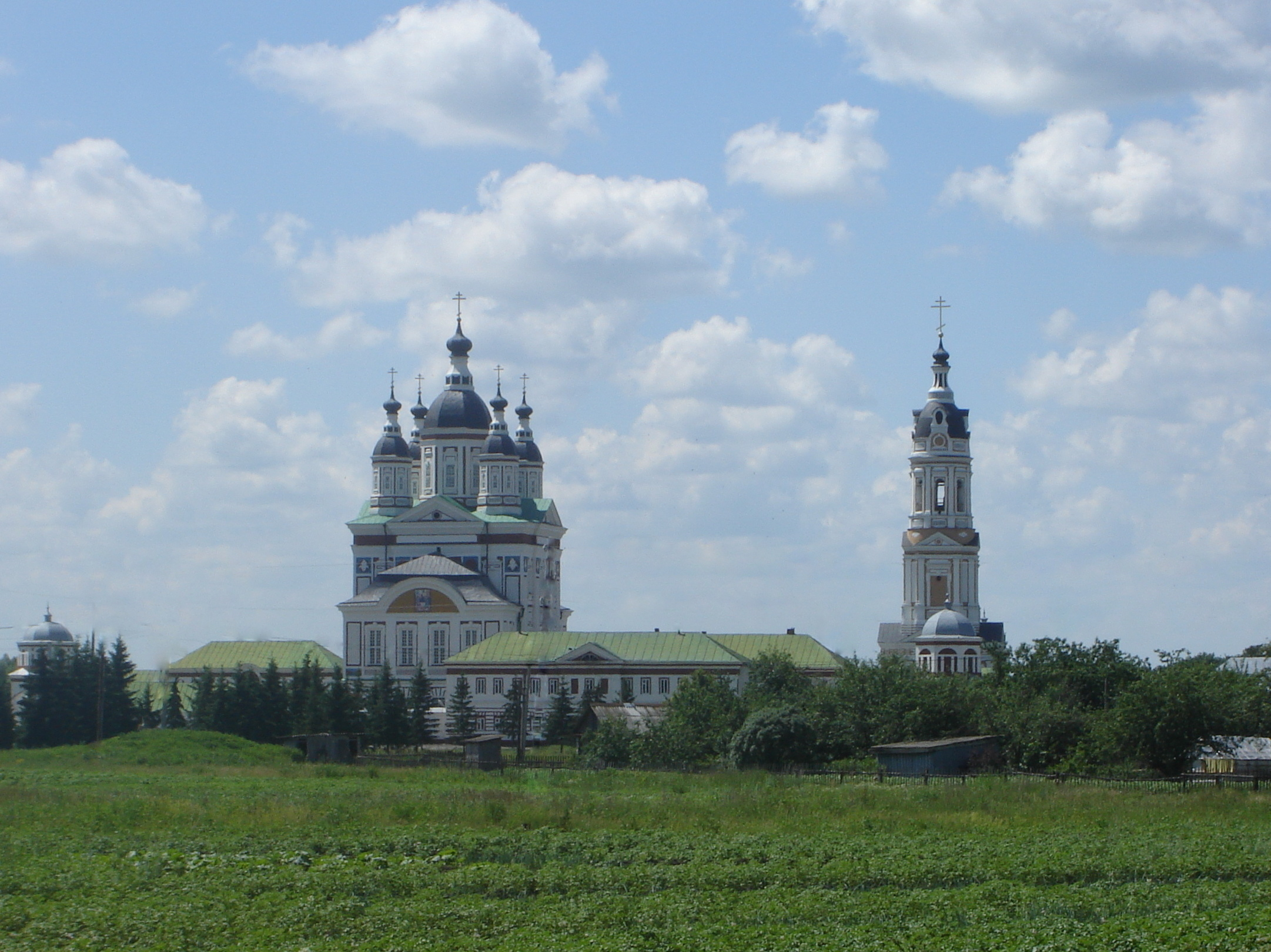 Troice-scanov monastery